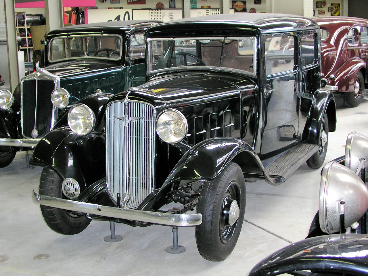 car with 2-litre 4-cylinder side-valve engine and sedan bodywork, made in Belgium by Fabrique Nationale d'Armes de Guerre; front-side view